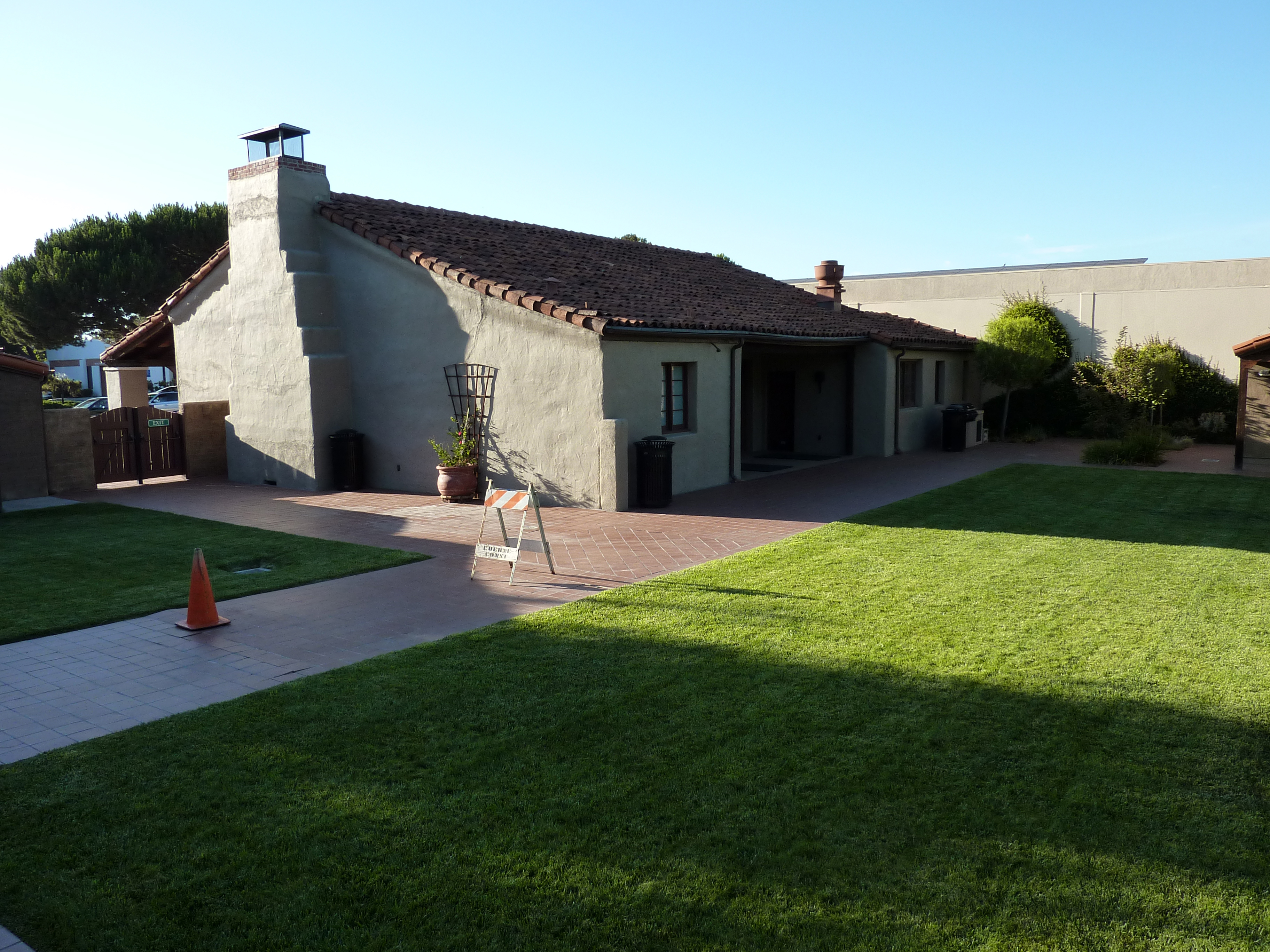 Historic Adobe Building, Mountain View, California, USA. Works Progress Administration project.